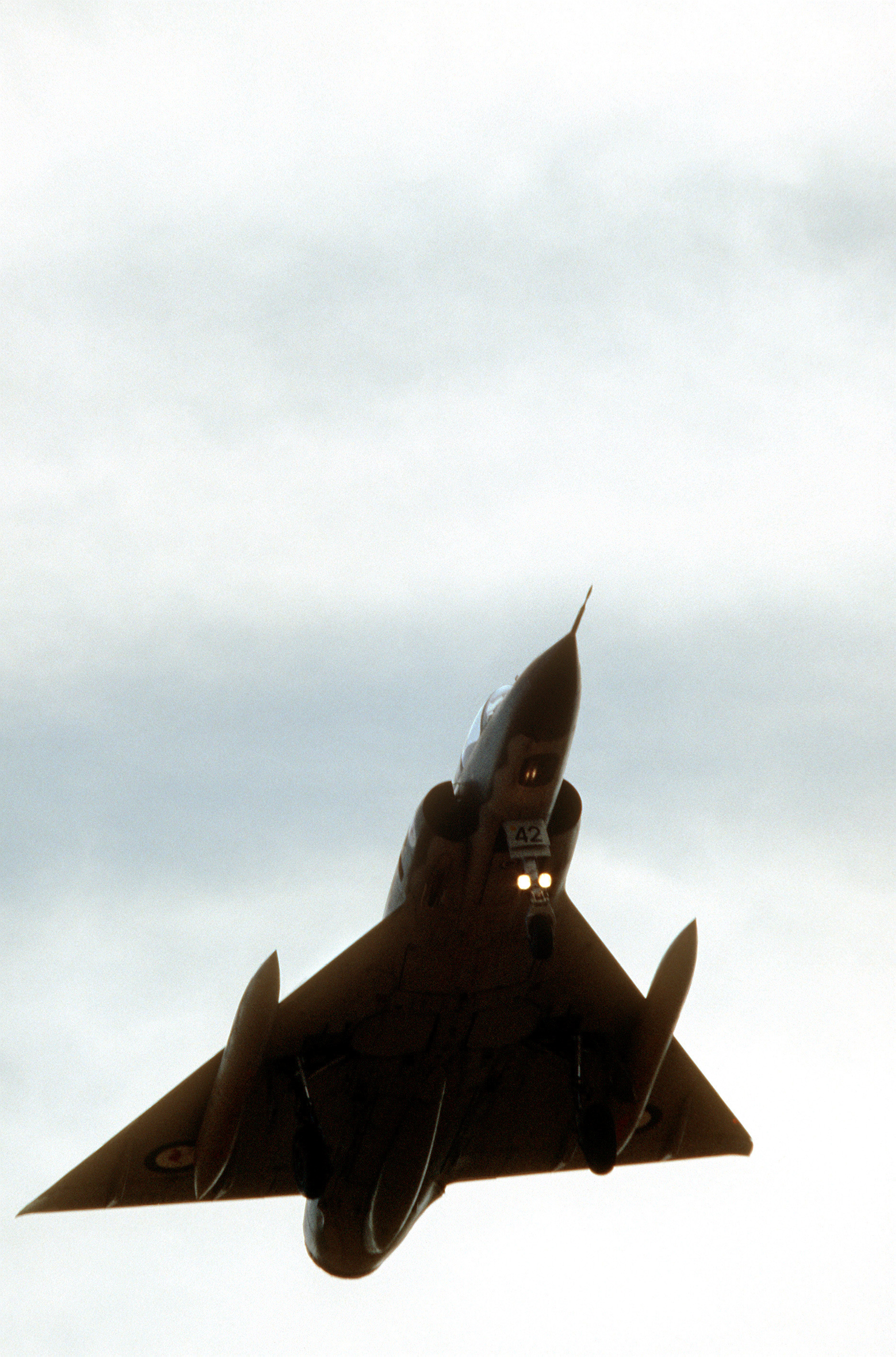 Underside view of a MIRAGE III aircraft from the 75th Squadron, Royal Australian Air Force, in flight during PITCH BLACK 84, a joint US, Australian and New Zealand exercise.